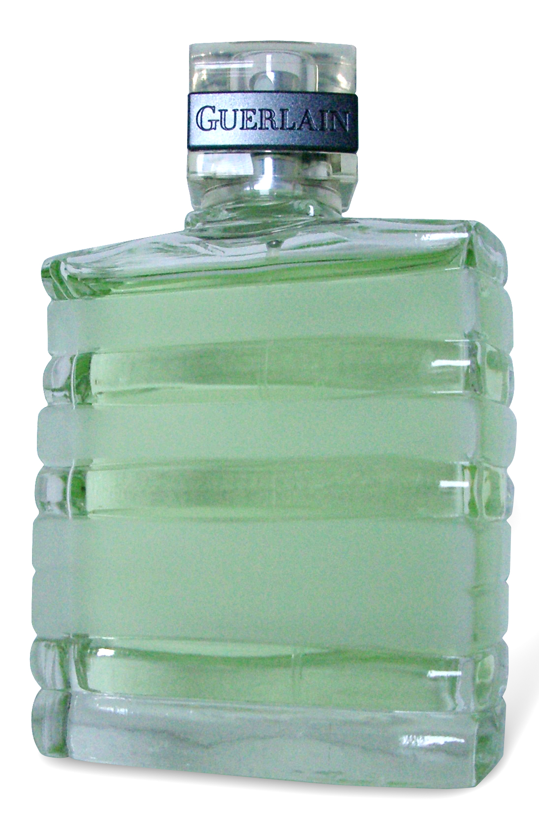 Vétiver by Guerlain. Glass flacon design by Robert Granai in 2000. (del) (cur) 14:07, 11 February 2006 . . Thomso (Talk) . . 1600x1600 (634,610 bytes) (Original digital camera jpeg file edited using Photofiltre) (del) (rev) 13:33, 11 February 2006 . . Thomso (Talk) . . 2560x1920 (1,615,347 bytes) (Photopgraph by myself)